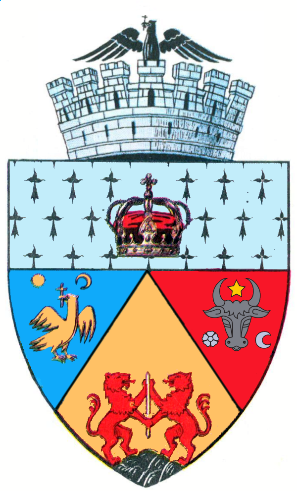 Alba-Iulia.